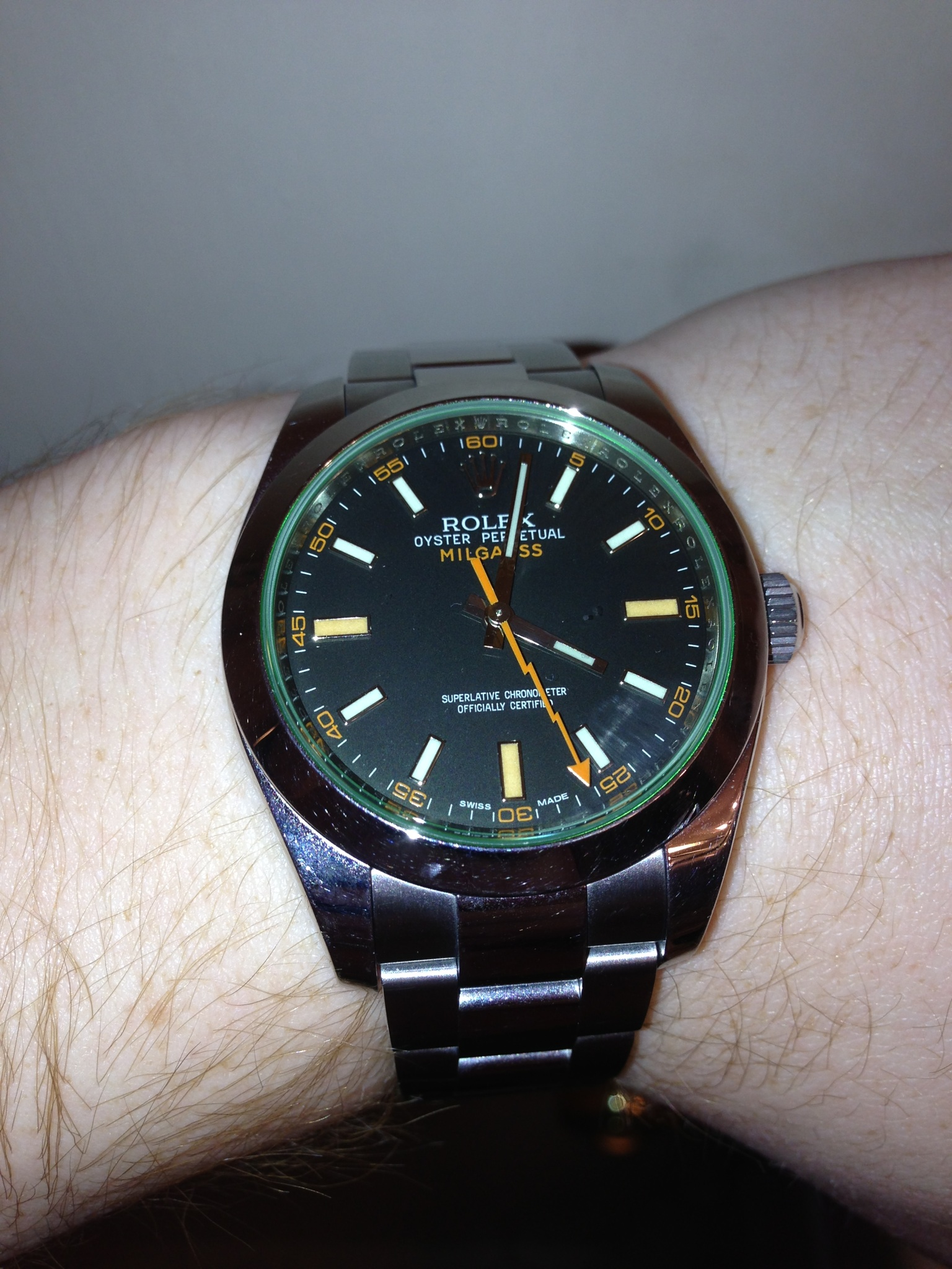 The Rolex Milgauss GV; Steel, black face, green sapphire.